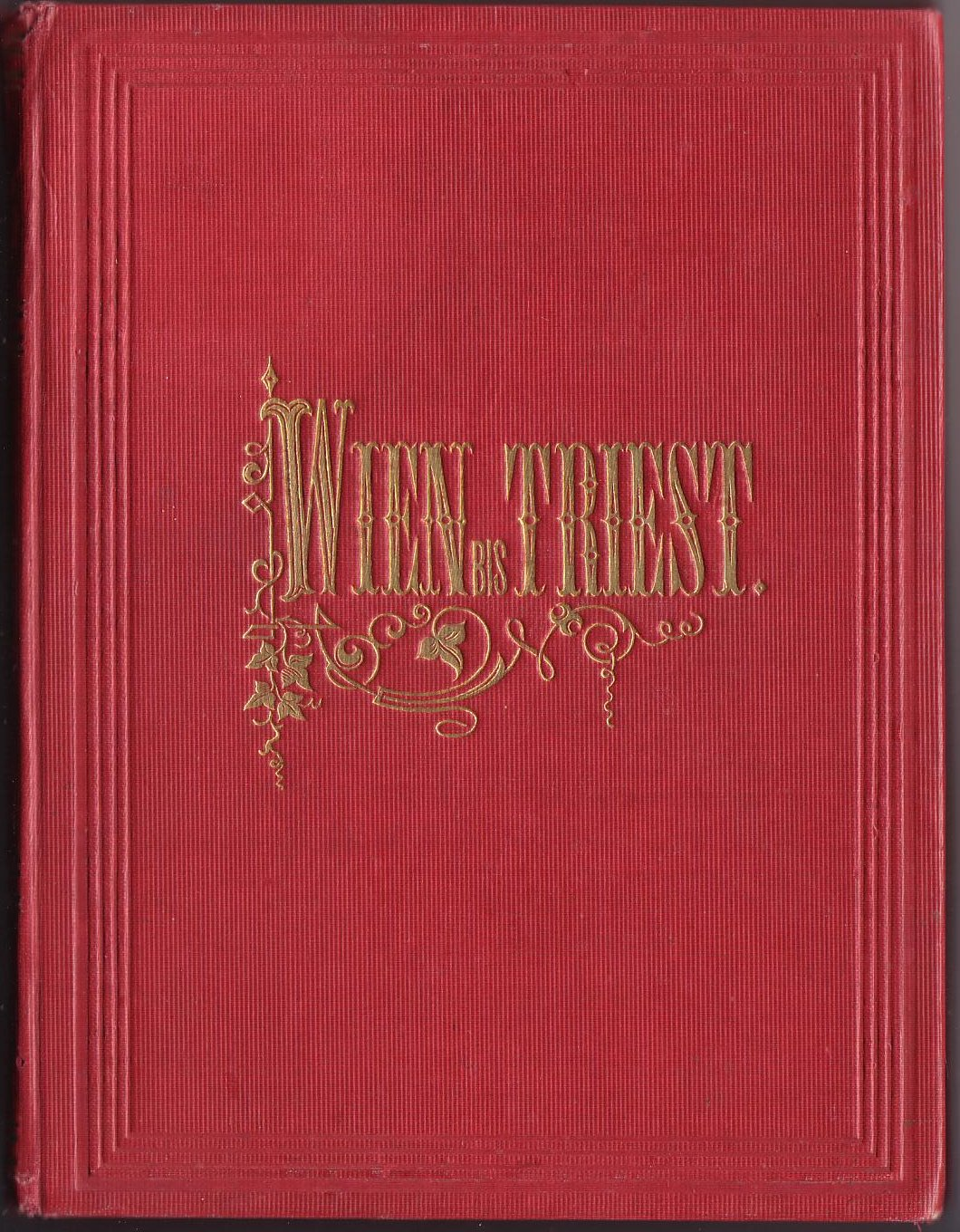 Front cover of the guide Lloyd's Reisehandbuch Wien-Triest 1860